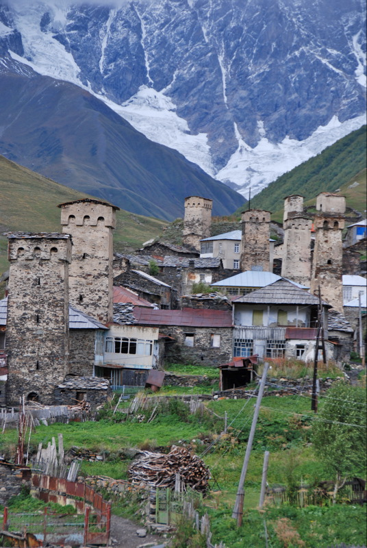 Ushguli Svaneti